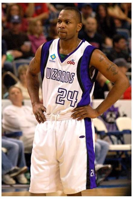 Damond Williams an amazing athlete to watch playing at home with the Dakota Wizards. Date: 7 February 2010